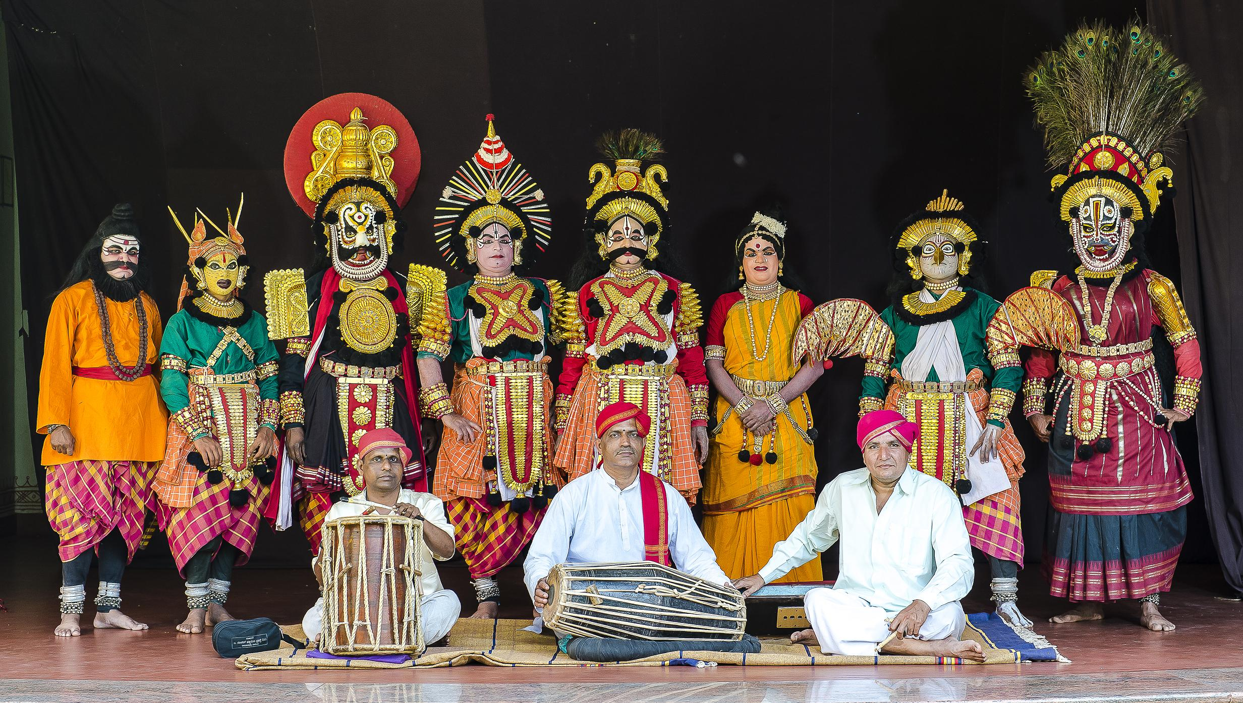 Yakshagana Team